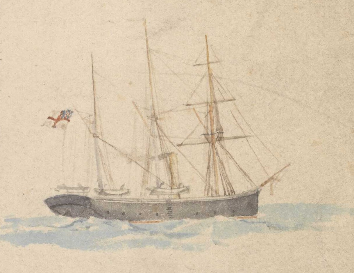 H.M's Gunboat Decoy at sea (cropped) RMG PW8172